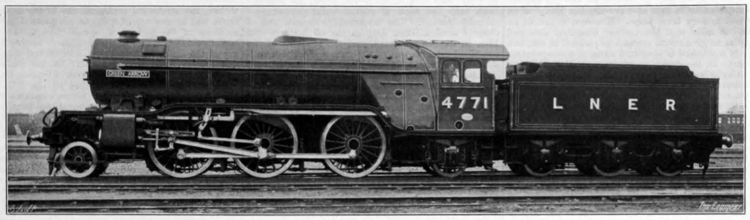 It's a V2. The "Green Arrow" L.N.E.R. three-cylinder 2-6-2 locomotive.